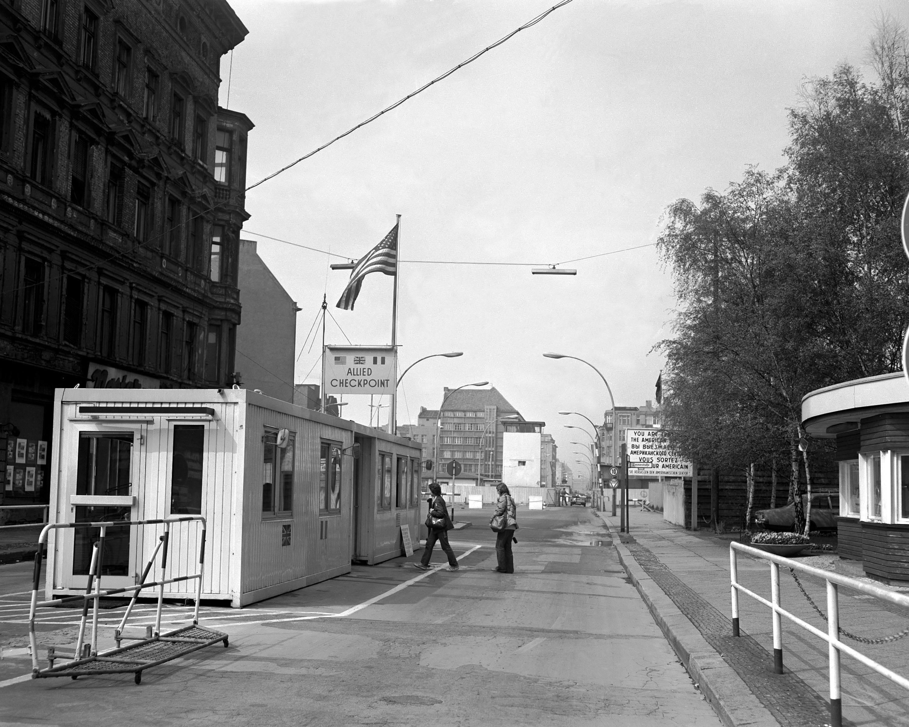 A view of Checkpoint Charlie, the crossing point for foreigners who are visiting East Berlin